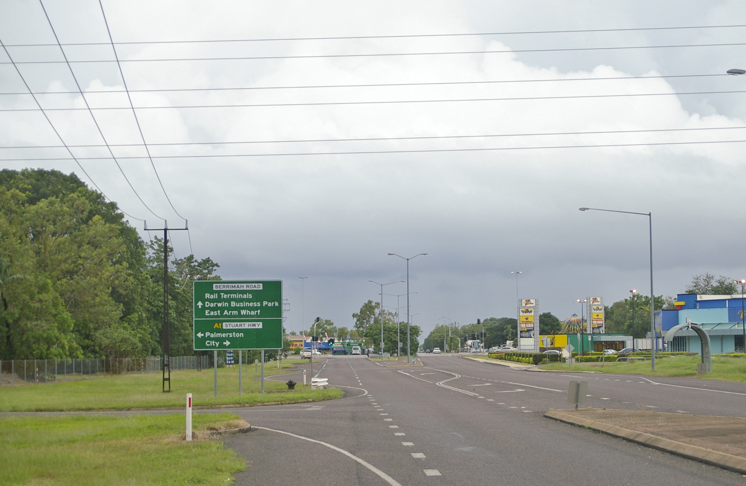 Vanderlin Drive, Darwin, Northern Territory.